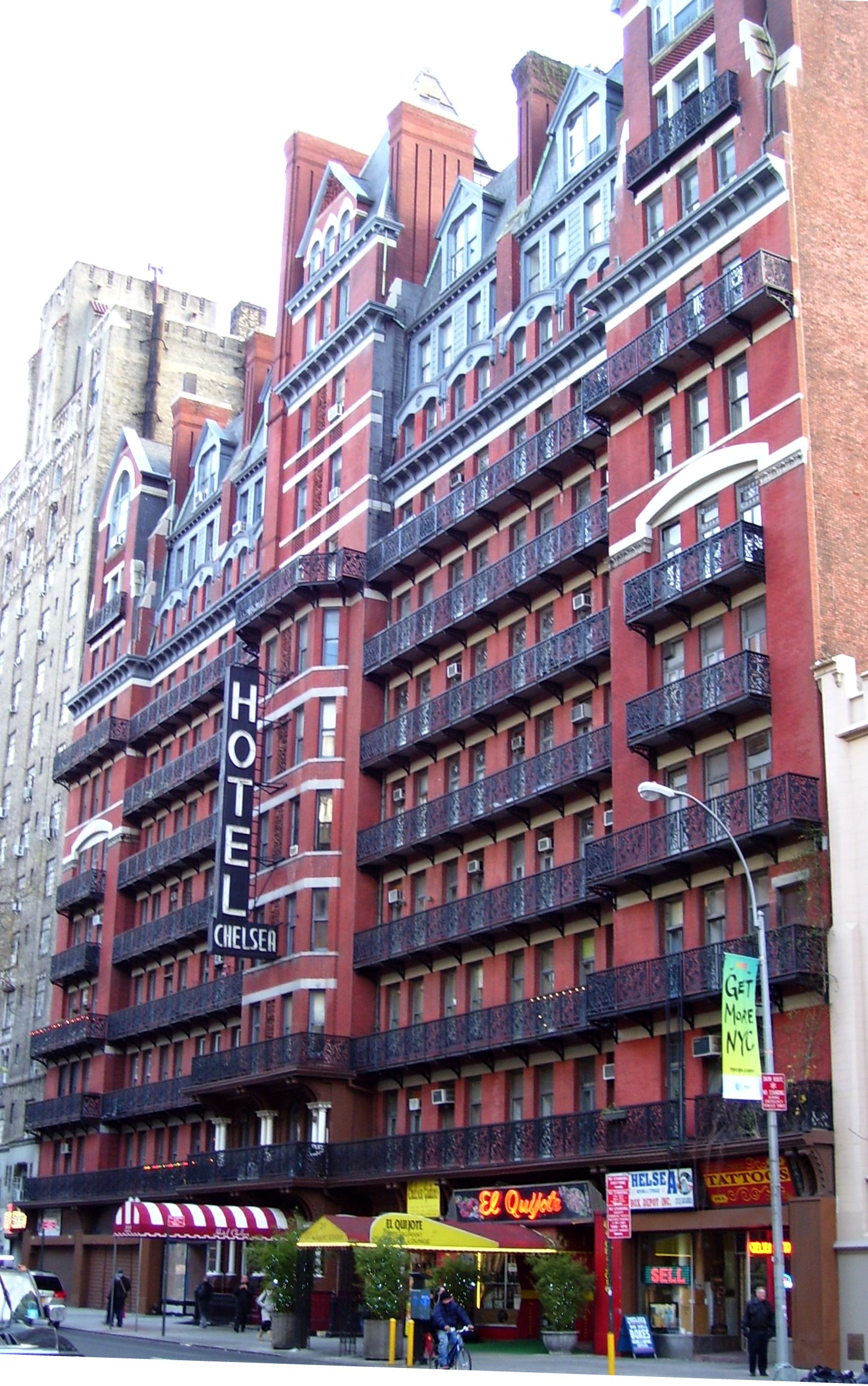 Hotel Chelsea on 23rd Street between Seventh and Eighth Avenue inthe Chelsea neighborhood of Manhattan, New York City.